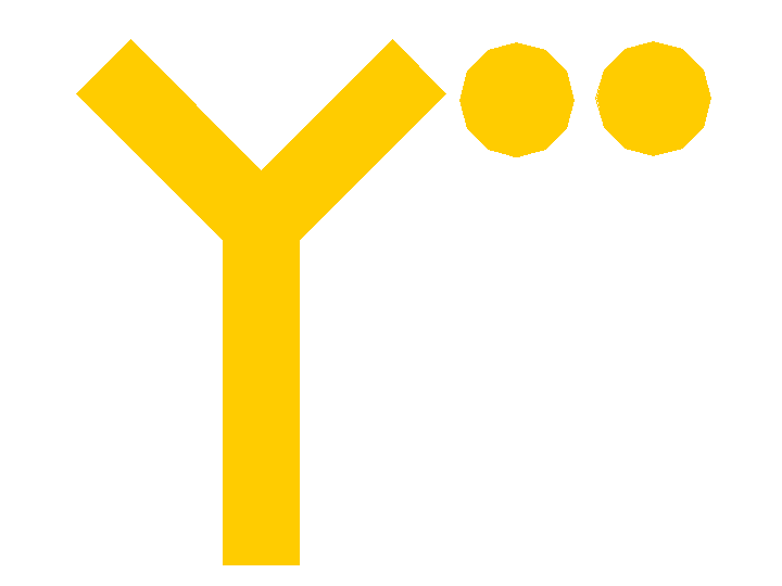 Mark of Ww2 GermanDivision Panzer 9 - 1940